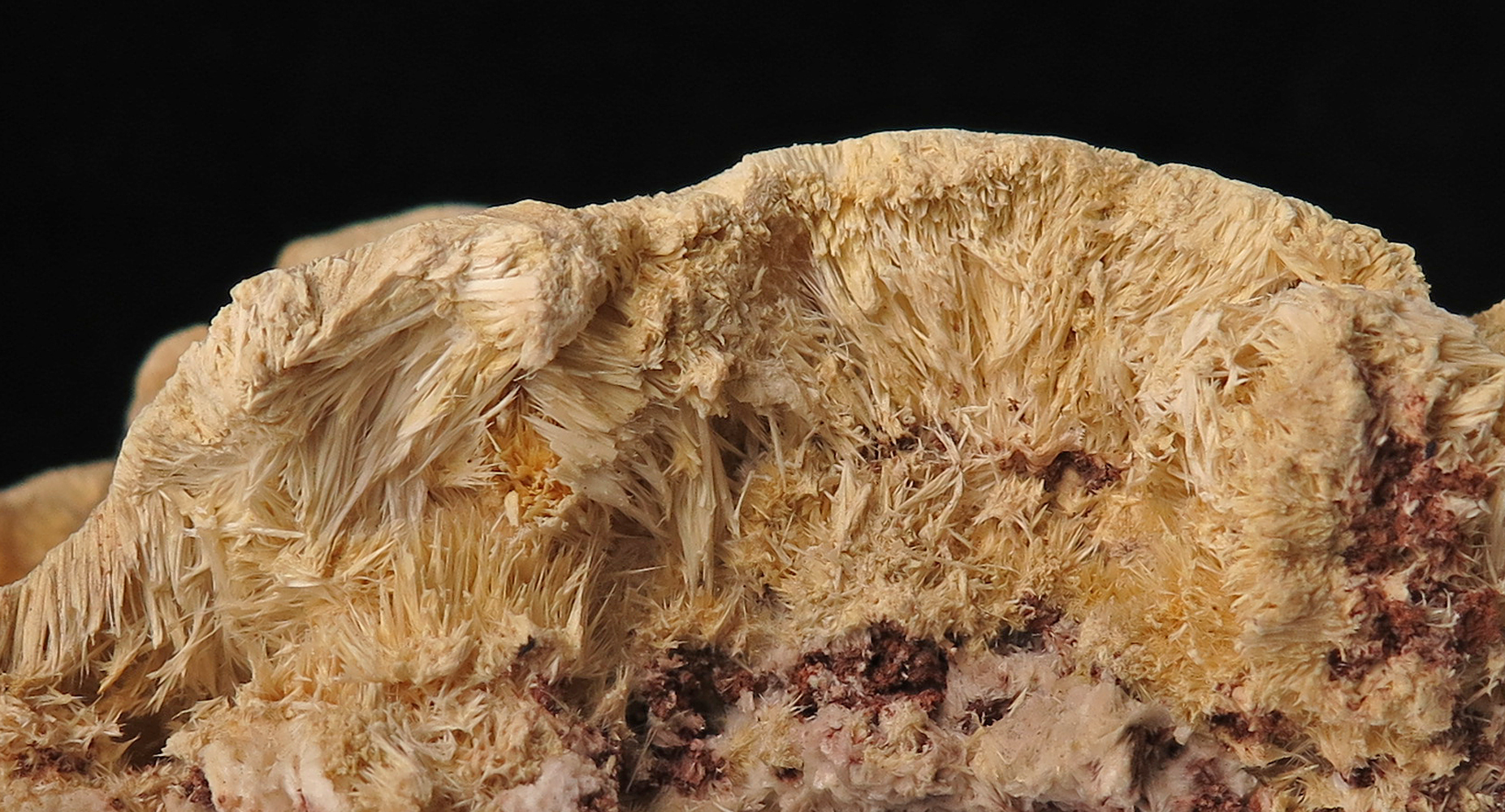 Melanterite, Gypsum Locality: Sherwood Mine, Mineral Hills, Menominee iron range, Iron County, Michigan, USA Size: 10.4cm x 7.9cm x 6.1cm Melanterite is a hydrated iron sulphate formed after the decomposition of pyrite or other iron minerals due to the action of surface waters. It is often found in mines as a post-mining formation on mine walls (MINDAT). It is very rare from any of the iron mines in Iron County of the Menominee iron range. This sculptural, large, very light weight (119 grams), post-mining crust is from the extinct underground Sherwood Mine, a deep 1625' mine. The rounded light brown masses consist of intergrown sprays of needle-like crystals. It looks like coral on the surface. Rare and desirable older material from the Mark & Lynn Langenfeld and Robert Nowakowski Collections. Melanterite is not listed for this locality on Mindat.